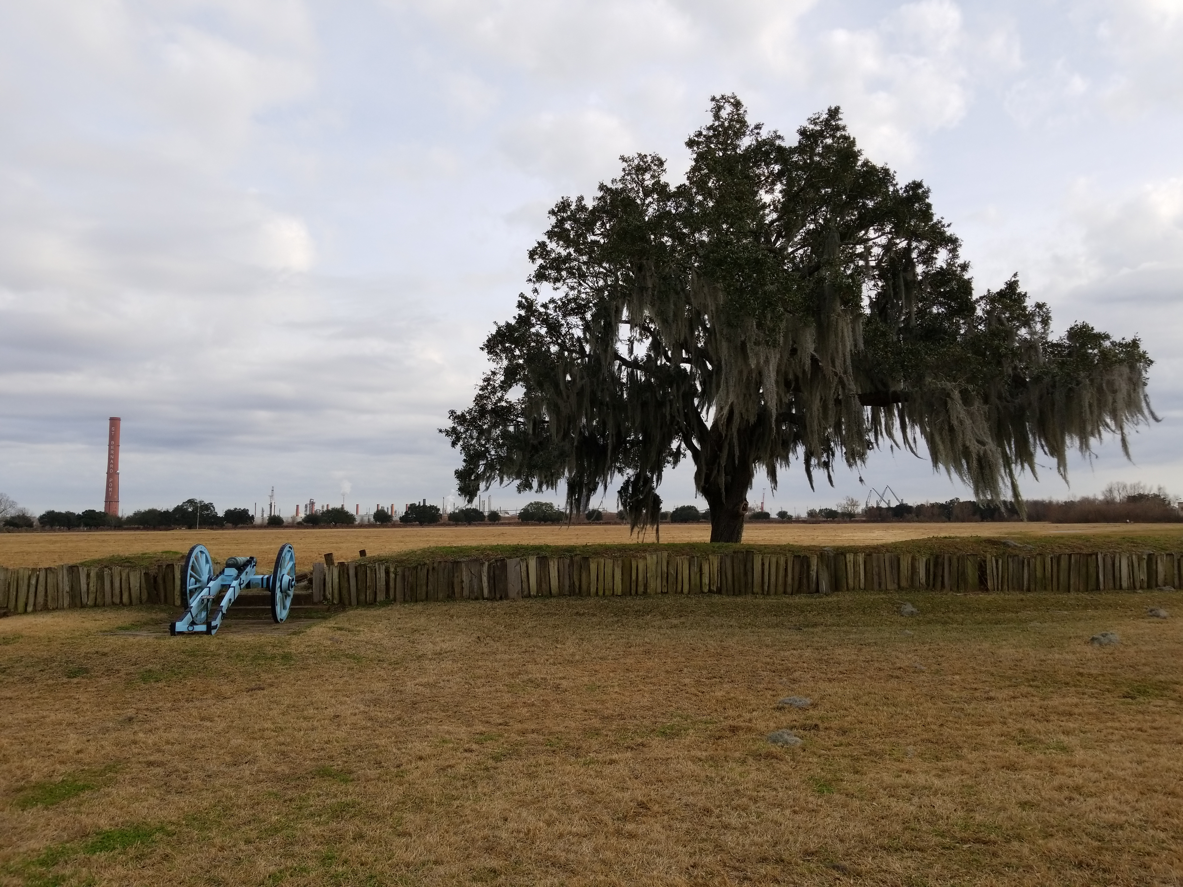 Looking out over the battlefield